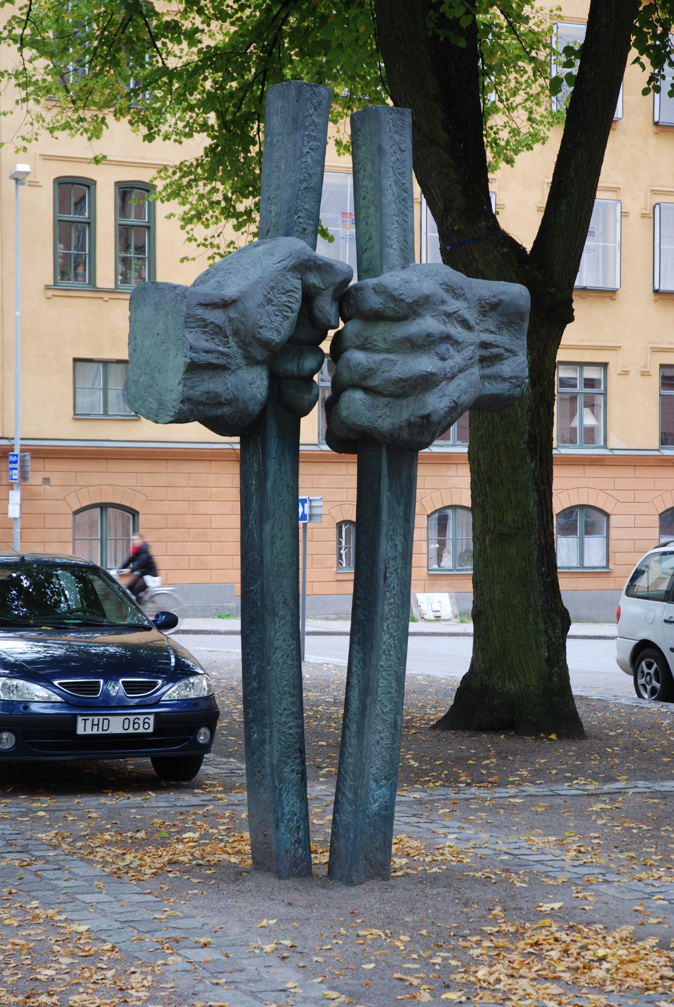 Olof Hellström's Befrielsen ("Liberation"), Martin Luther King square, Uppsala, Sweden